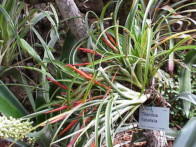 Species: Tillandsia flabellata Family: Bromeliaceae Image No. 2